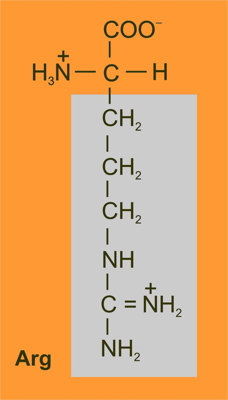 Arginine amino acid formula jpg